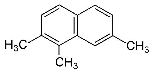 Chemical structure of sapotalin